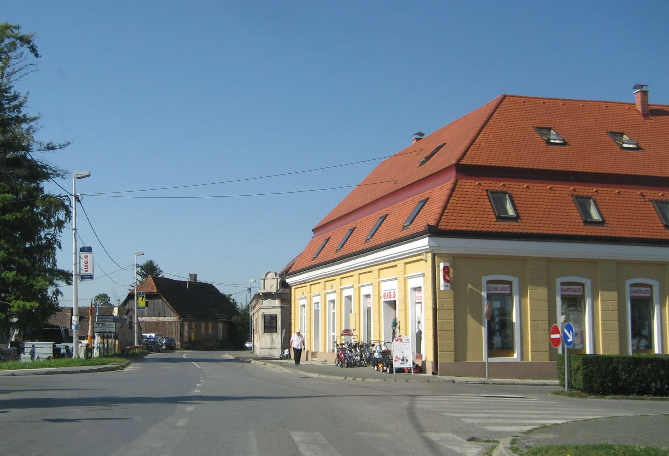 Ivanic Grad